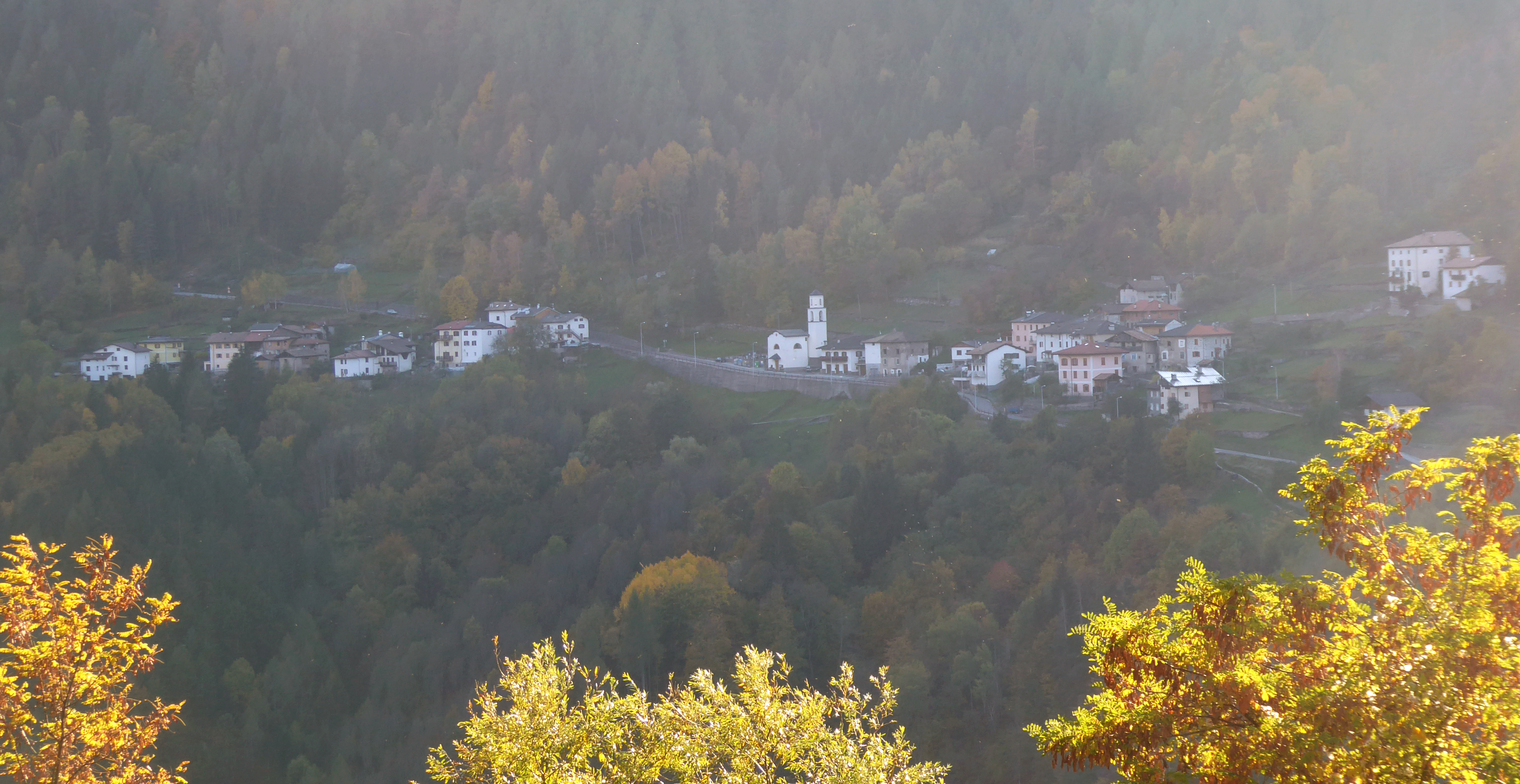 Valcava (Segonzano) as seen from Facendi (Sover), Trentino, Italy